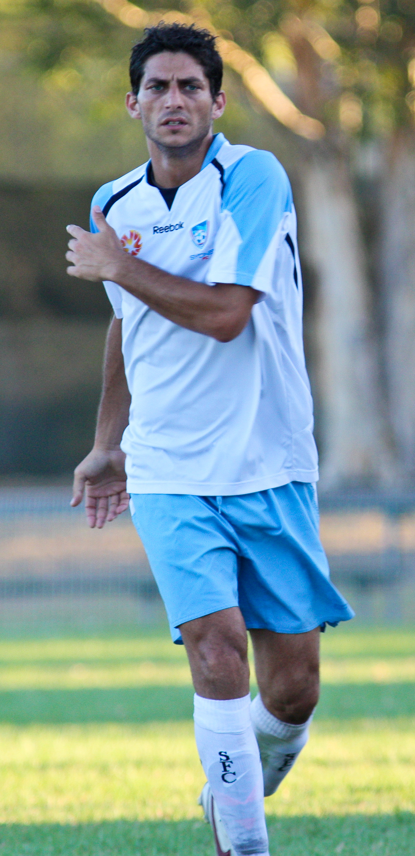 Simon Colosimo playing for the Sydney FC Youth team.